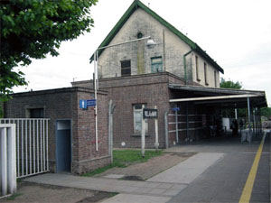 Villa de Mayo Train Station